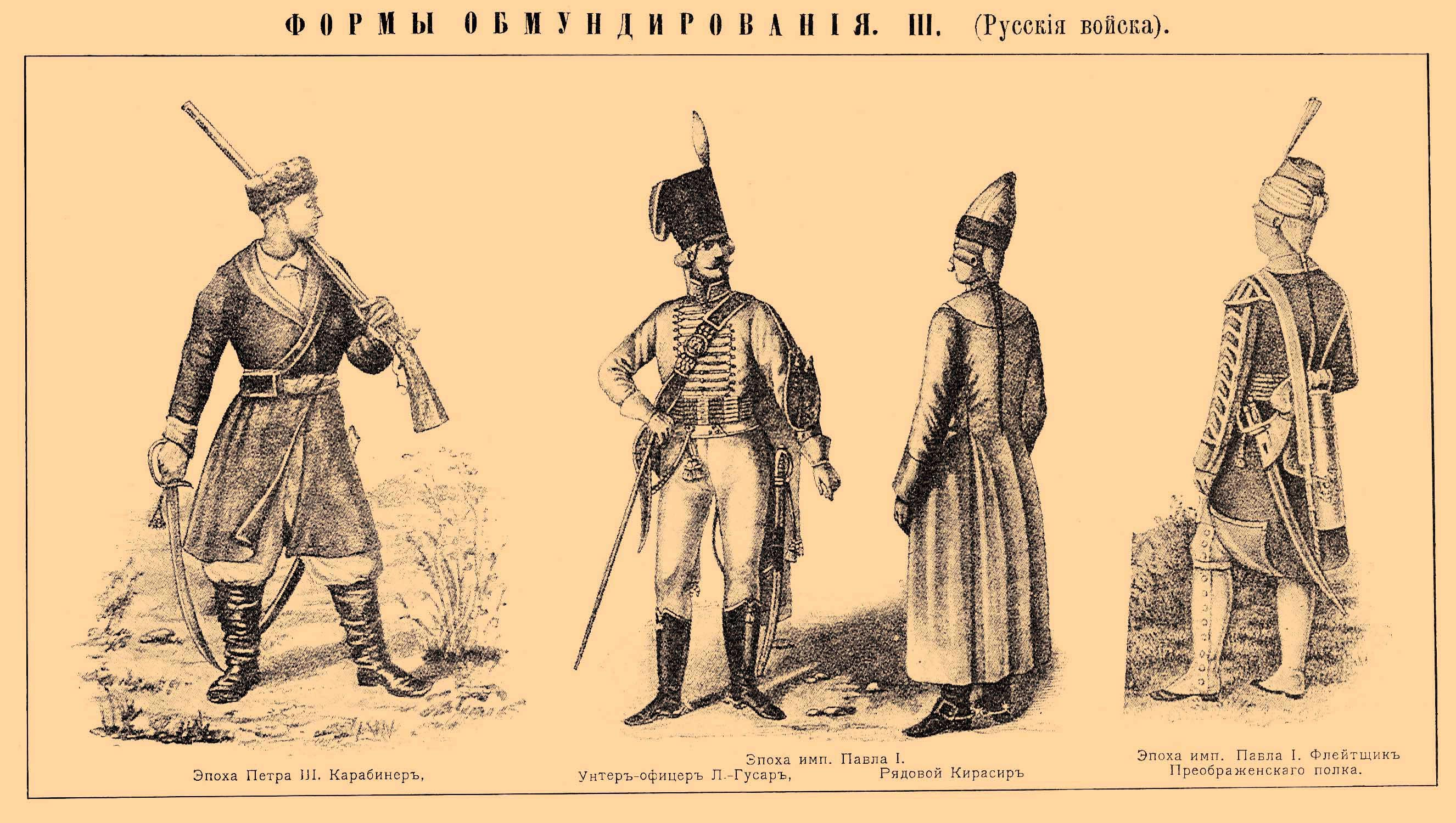 Illustration from Brockhaus and Efron Encyclopedic Dictionary (1890—1907)